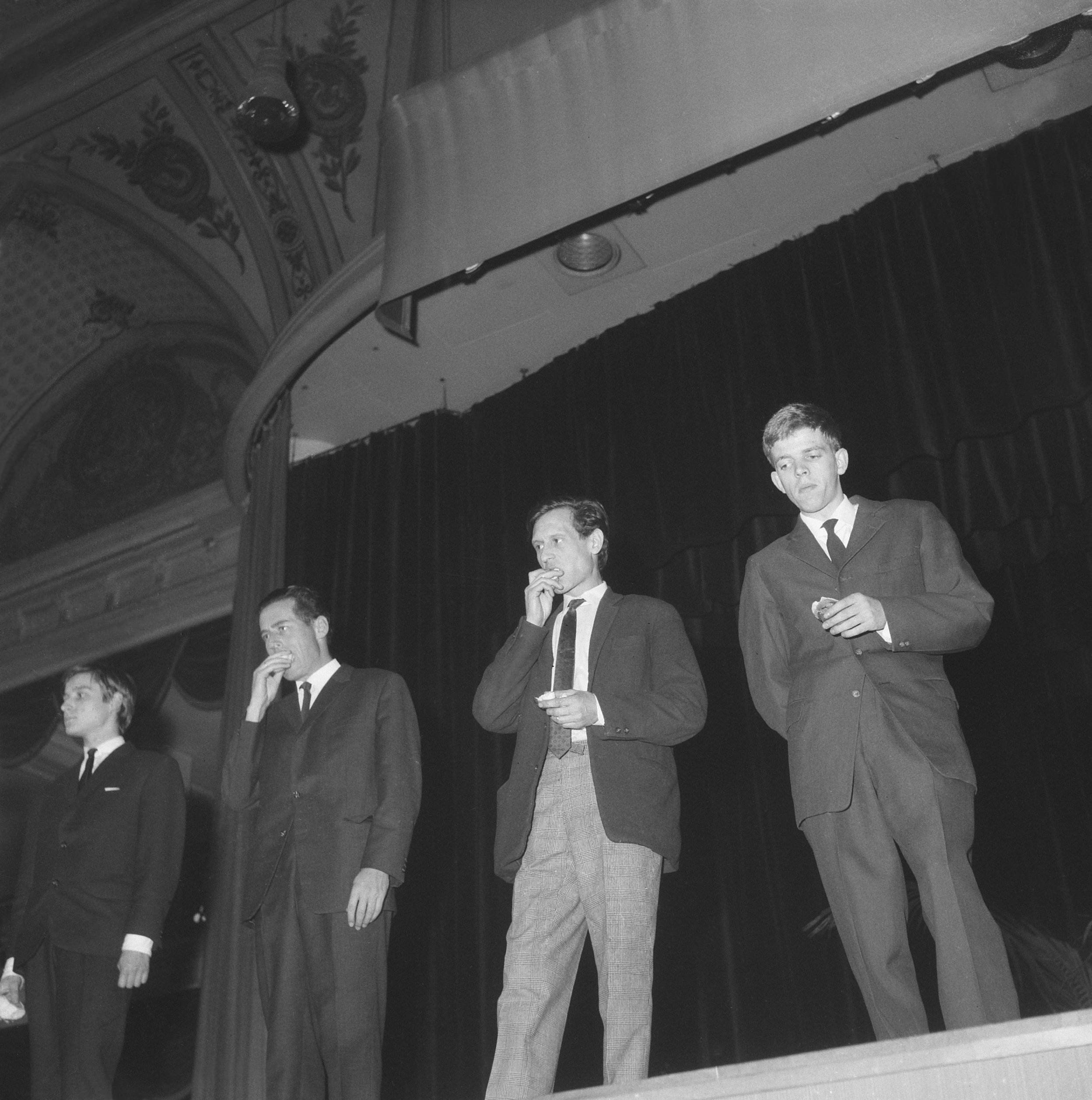 Fluxus manifestation (Concert for submarine sandwiches) in the Kurhaus Scheveningen (the Netherlands), 13 Nov. 1964